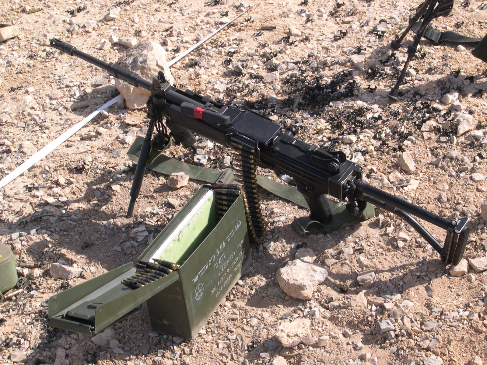 IMI Negev machinegun, in use by the Israel Defense Forces